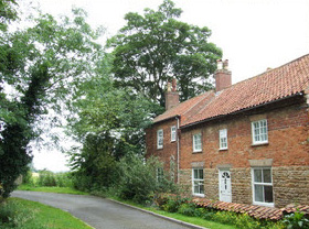 Clint Lane in Navenby in Lincolnshire, England.